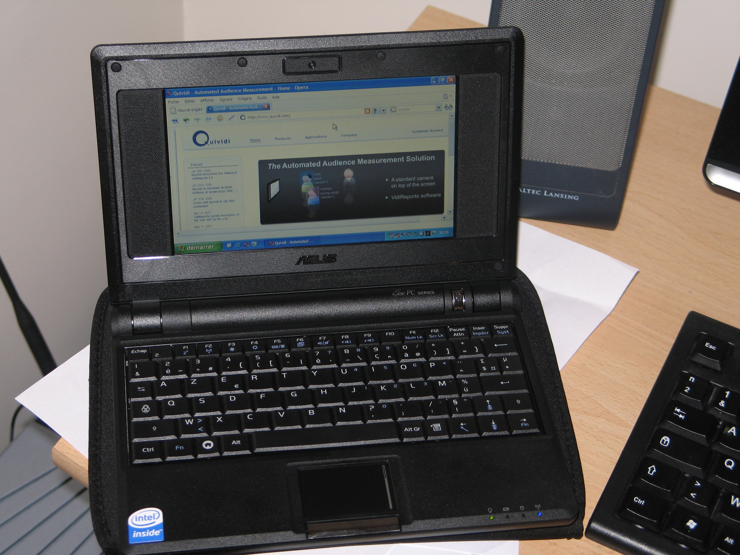 Asus EEE PC black Windows XP